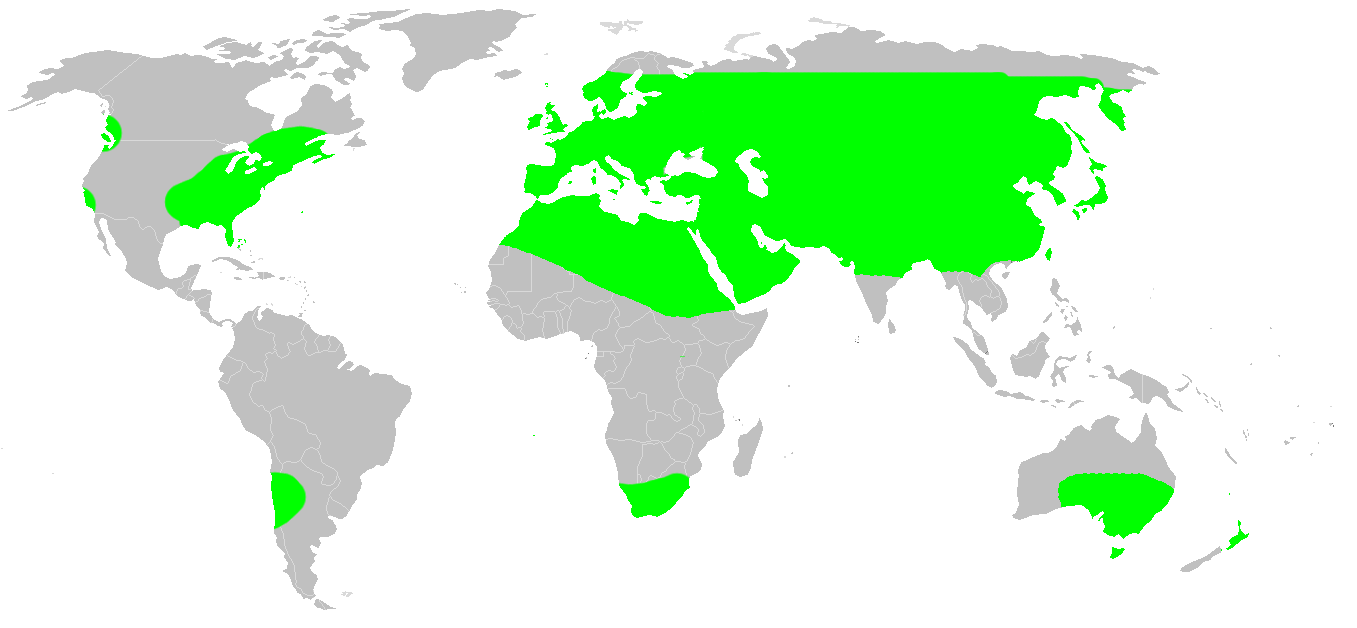 Known world distribution of Dysdera crocata, drawn after data from British Arachnological Society, 2006.